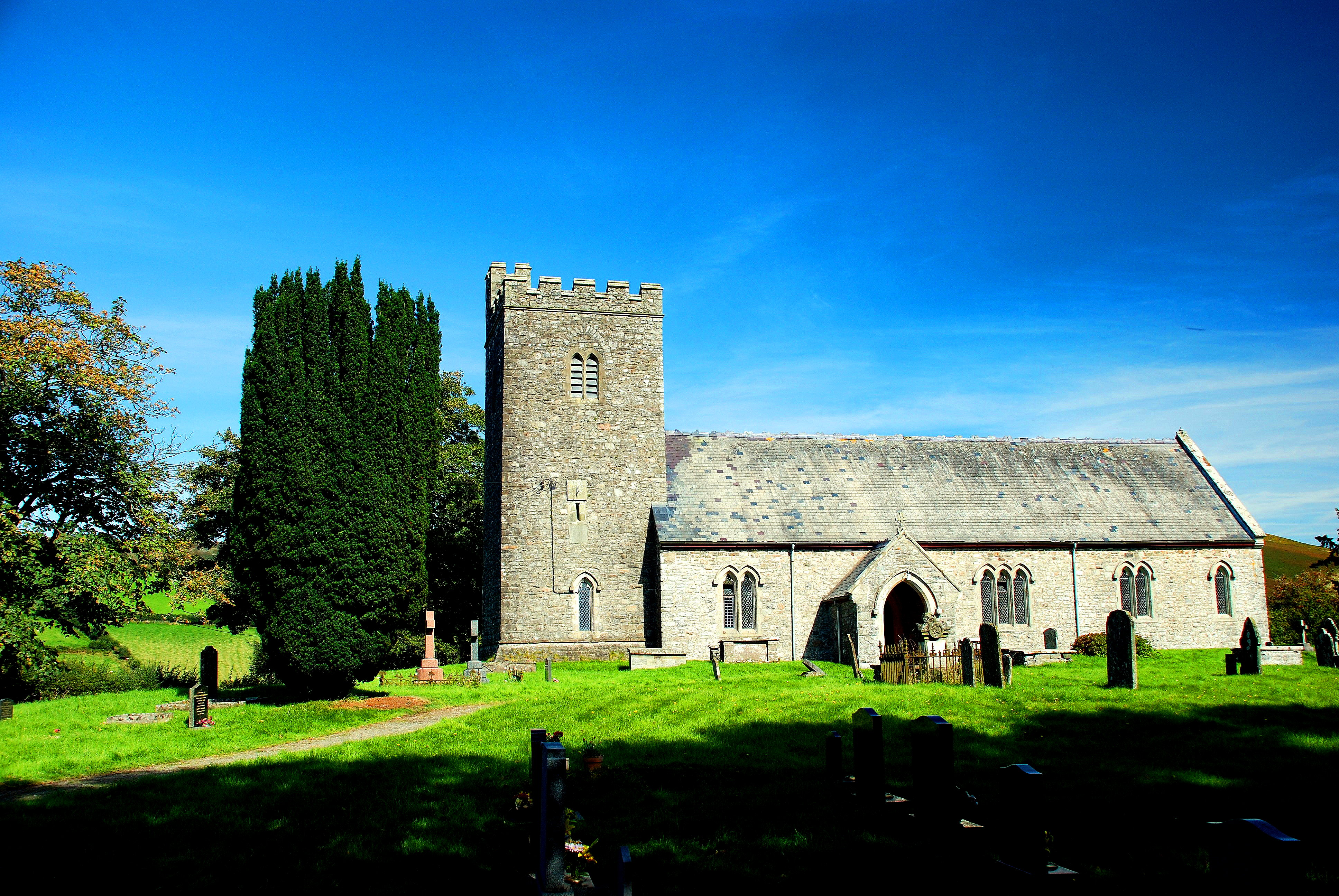 Church of St Afan Wikidata has entry Q29501522 with data related to this item.